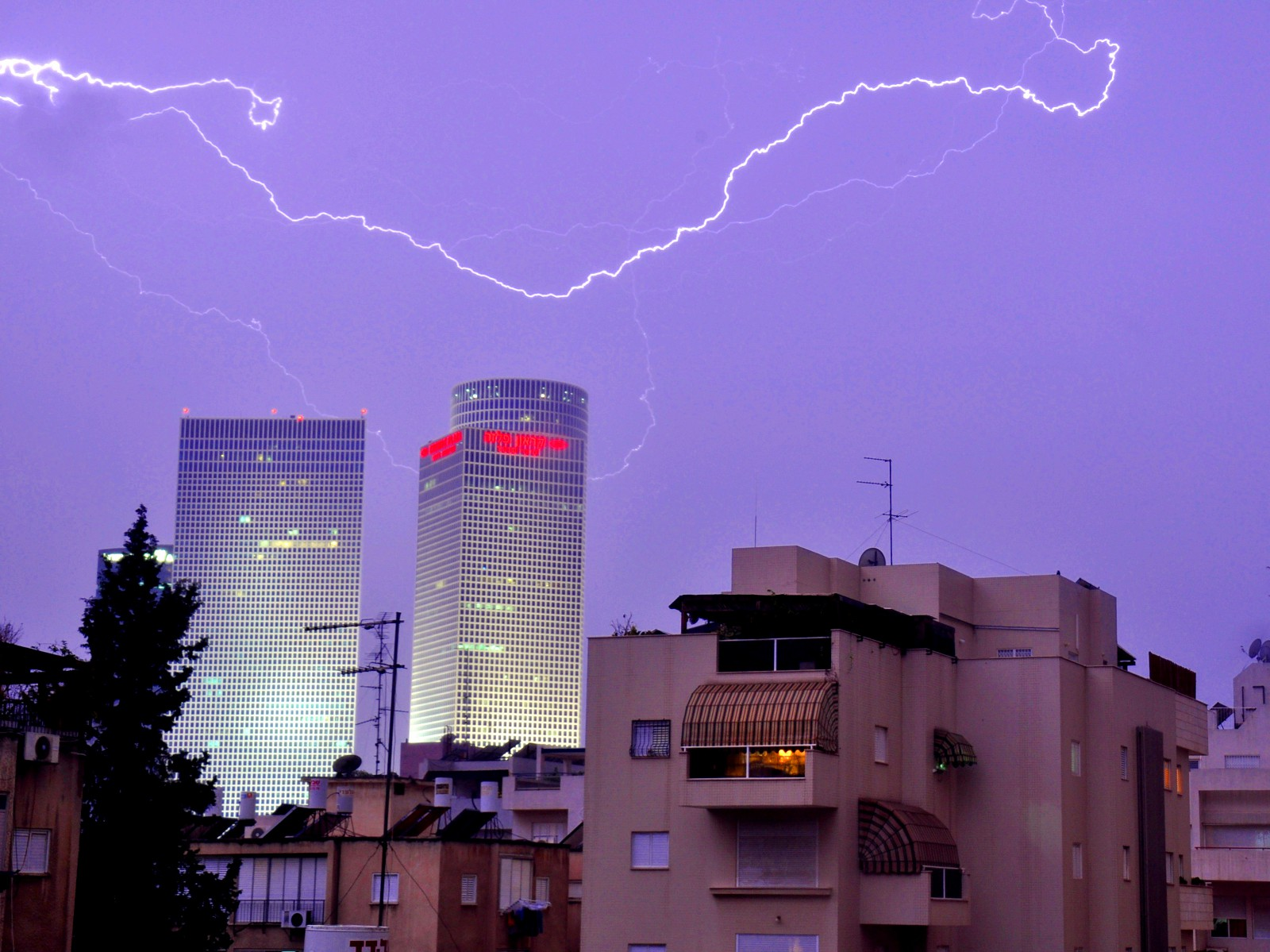 Geography of Israel